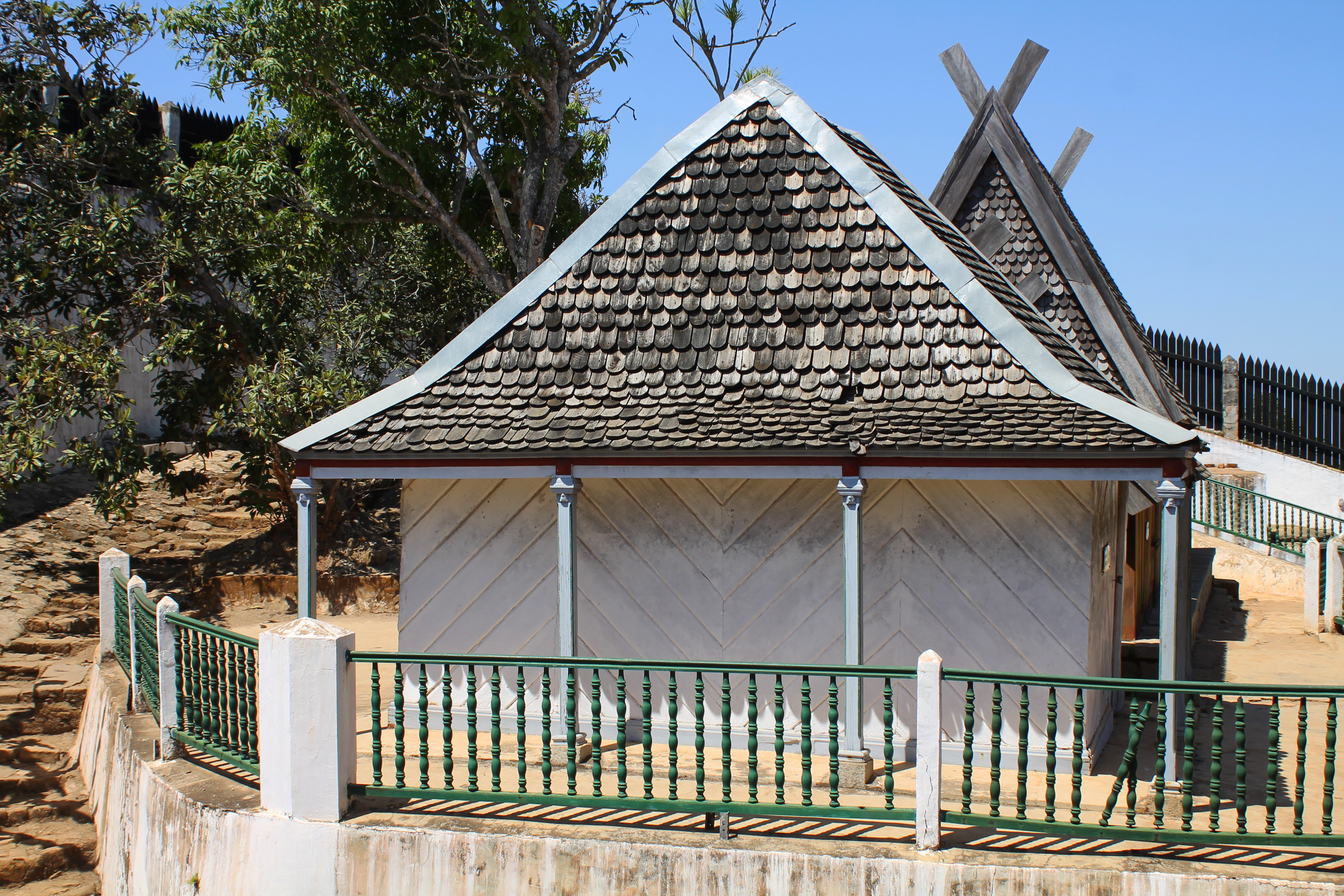 Tombe Ranavalona I and II